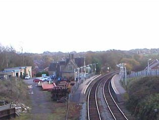 Photo of Appley Bridge train Station taken from the bridge on Appley Lane North.